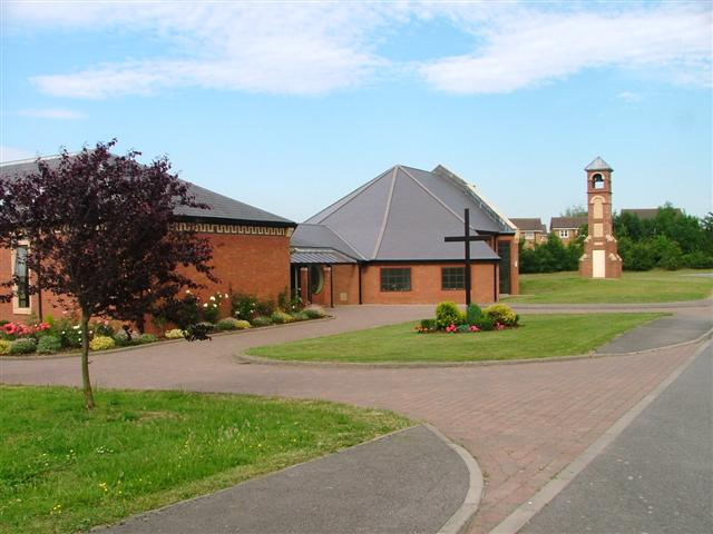 Parish church of St Francis of Assisi, Barwick Way, Ingleby Barwick, Stockton-on-Tees, North Yorkshire, seen from the southeast